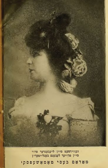 The Yiddish actress Bessie Thomashevski